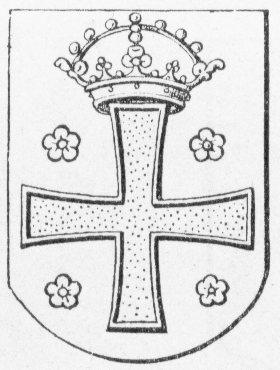 Coat of arms of Smørum Herred (Hundred), a former administrative subdivision of Denmark, 1648 version. Illustration from the article Om danske By- og Herredsvaaben written by Anders Thiset and published in Tidsskrift for Kunstindustri 1893-1894.